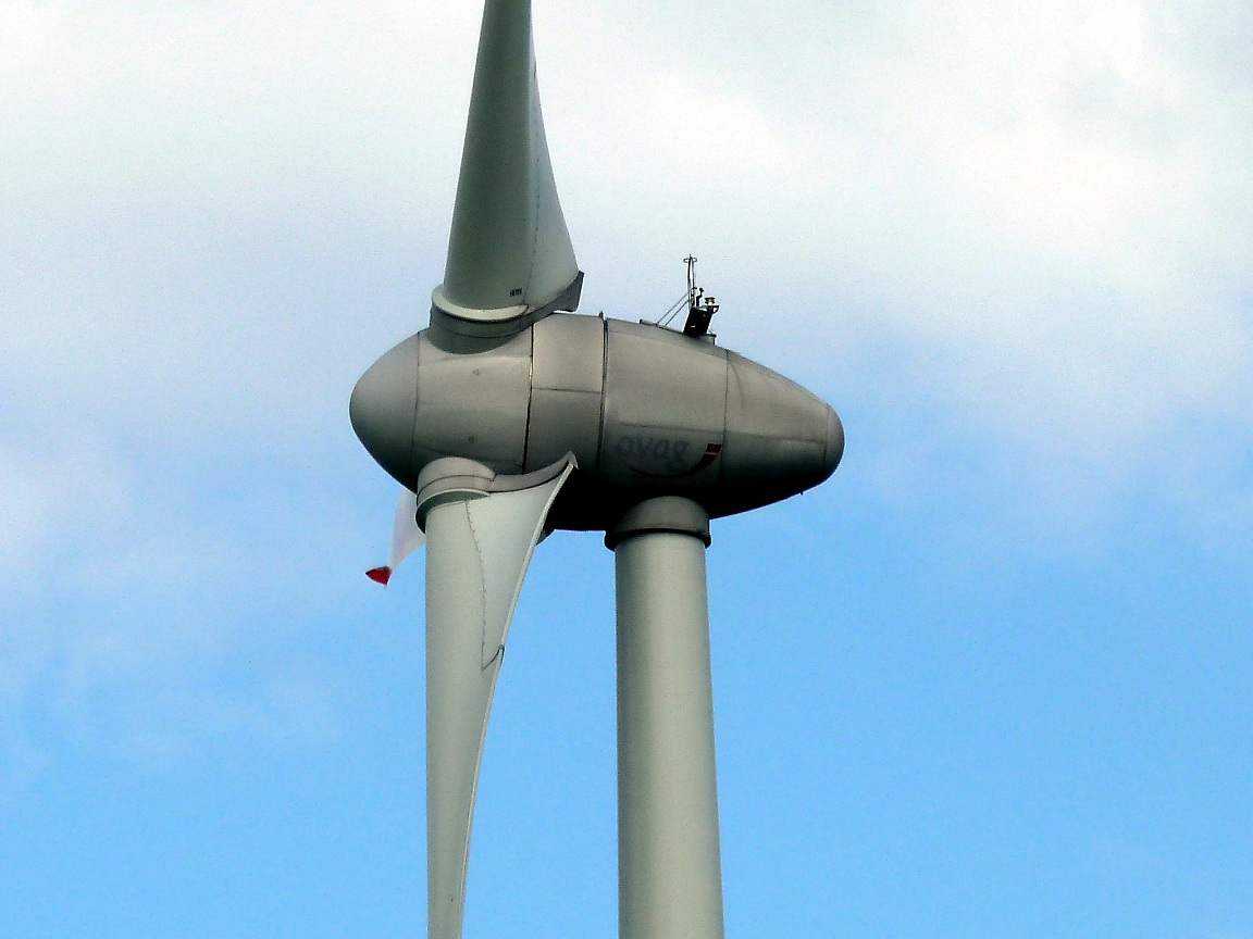 Wind turbine (Type: Enercon E-82) in the Windenergiepark Vogelsberg near Grebenhain, Hesse, Germany.